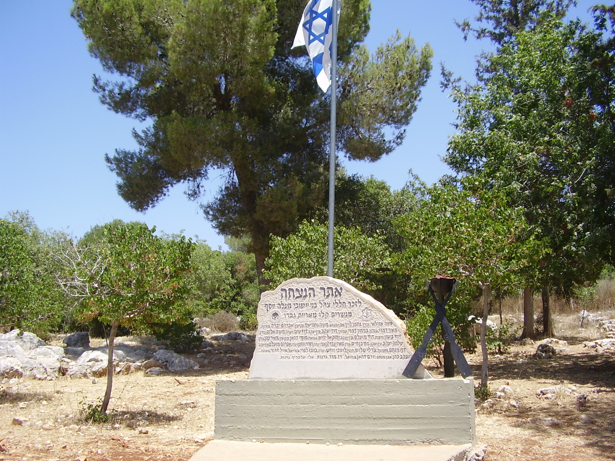 war memorial in ma\'ale yosef regional council in upper galilee